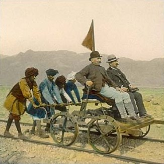 Four turbanned natives pushing Pangborn in hand-car in Bolan Pass [Baluchistan].